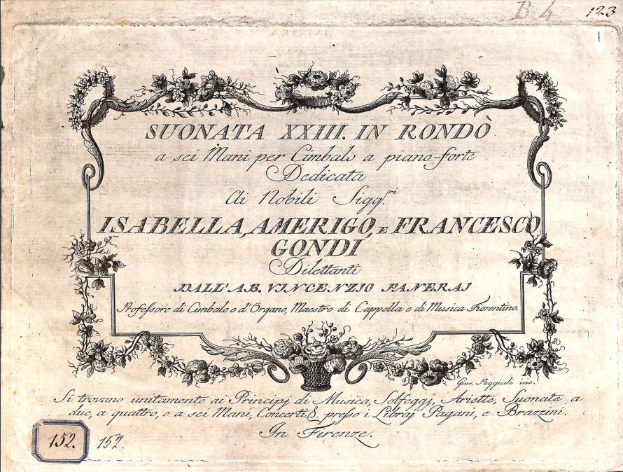 Front page of a print edition (published by Poggiali, Firenze) of "Sonata 23" for keyboard by Vincenzo Panerai